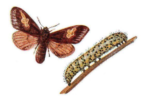 Diloba caeruleocephala